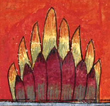 smokeless fire of 14 auspicious dreams in Jainism